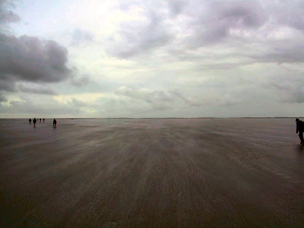 Wadlopen to Schiermonnikoog on a windy day